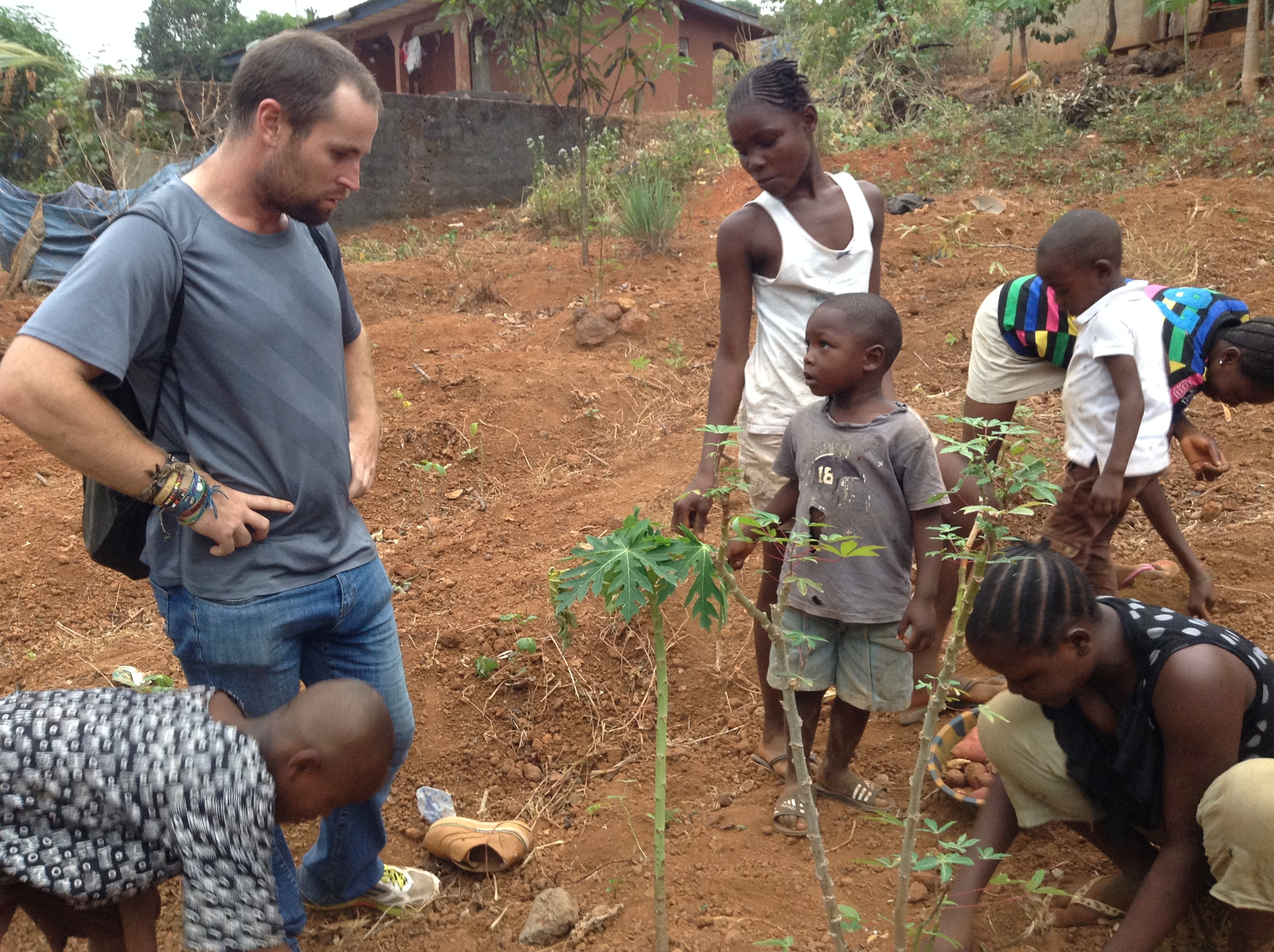 Real African people working on their little farm in Freetown (They are harvesting potatoes for living ) and a guy from Australia who had visited more than 164 countries was passing by and he was amazed of what he saw. This is an image of "African people at work" from Sierra Leone